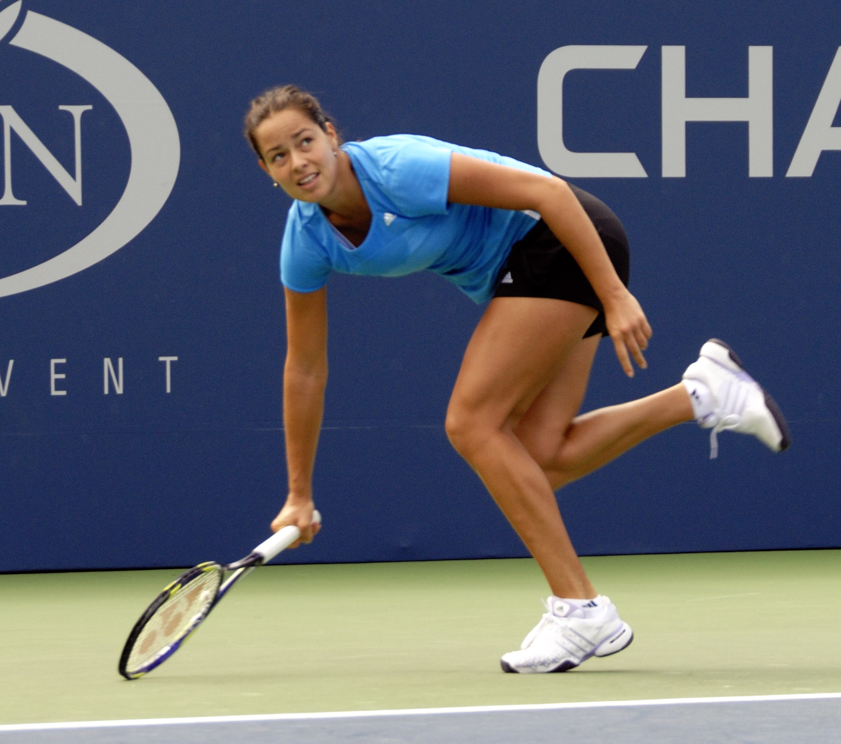 Ana Ivanović at the 2009 US Open